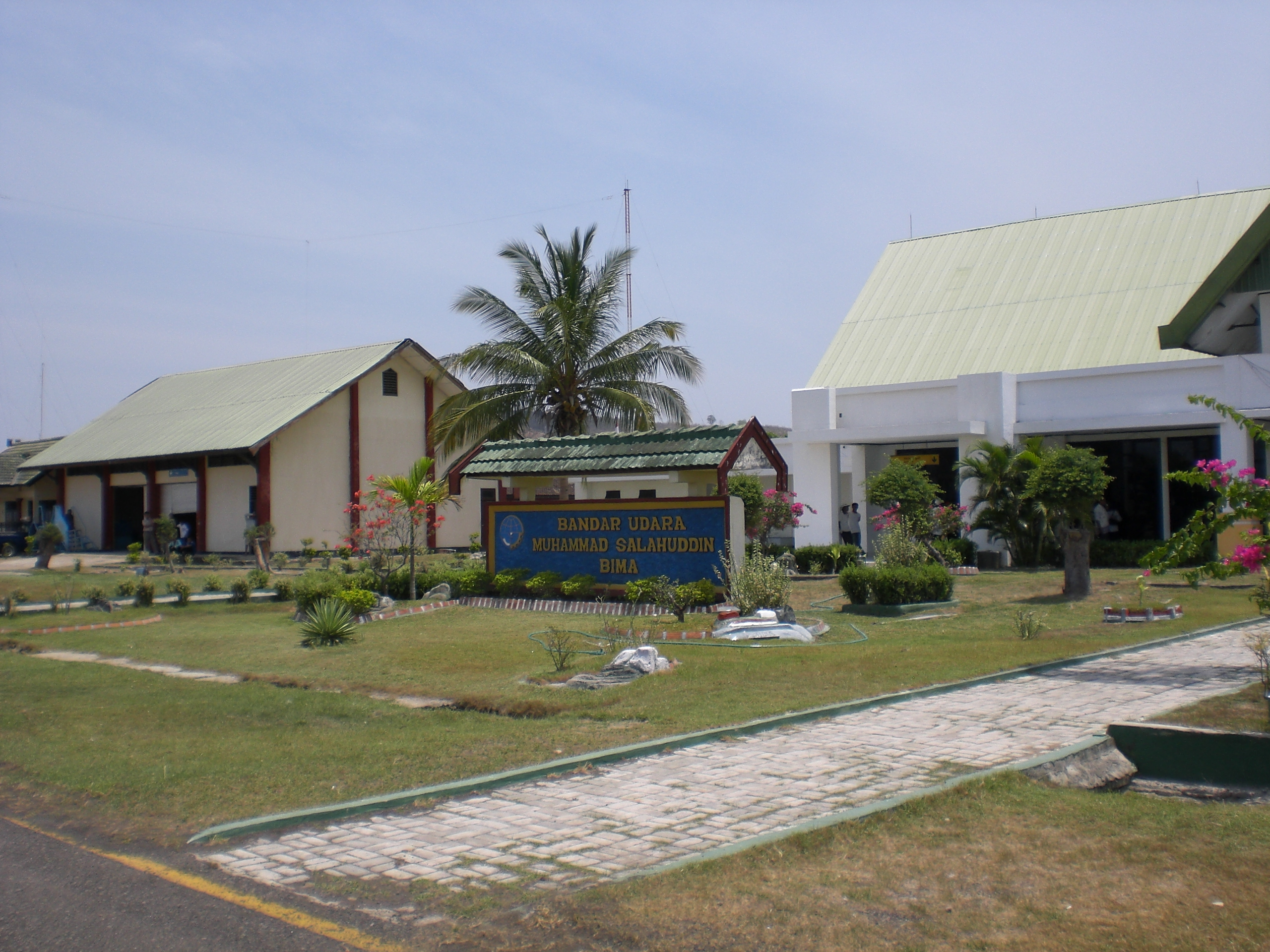 Bima Airport, Sumbawa, Indonesia